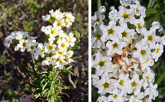 A common roadside weed in the Norte Chico of Chile. Borage Family.